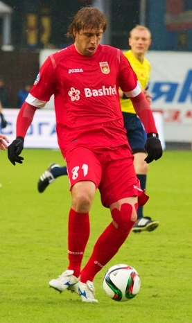 Dmitry Verkhovtsov